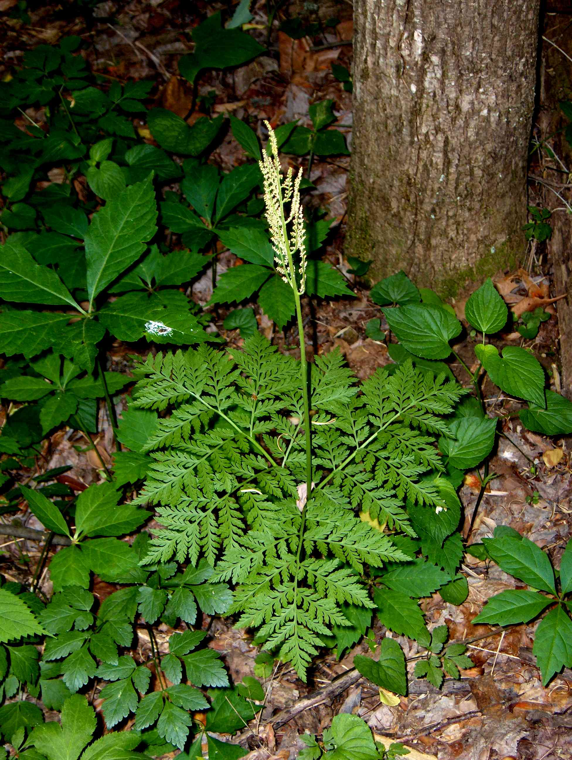 photo by John Knouse, May 2005